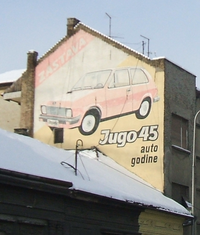 Advertisement for a Yugo 45 as Car of the Year in Novi Sad, Serbia